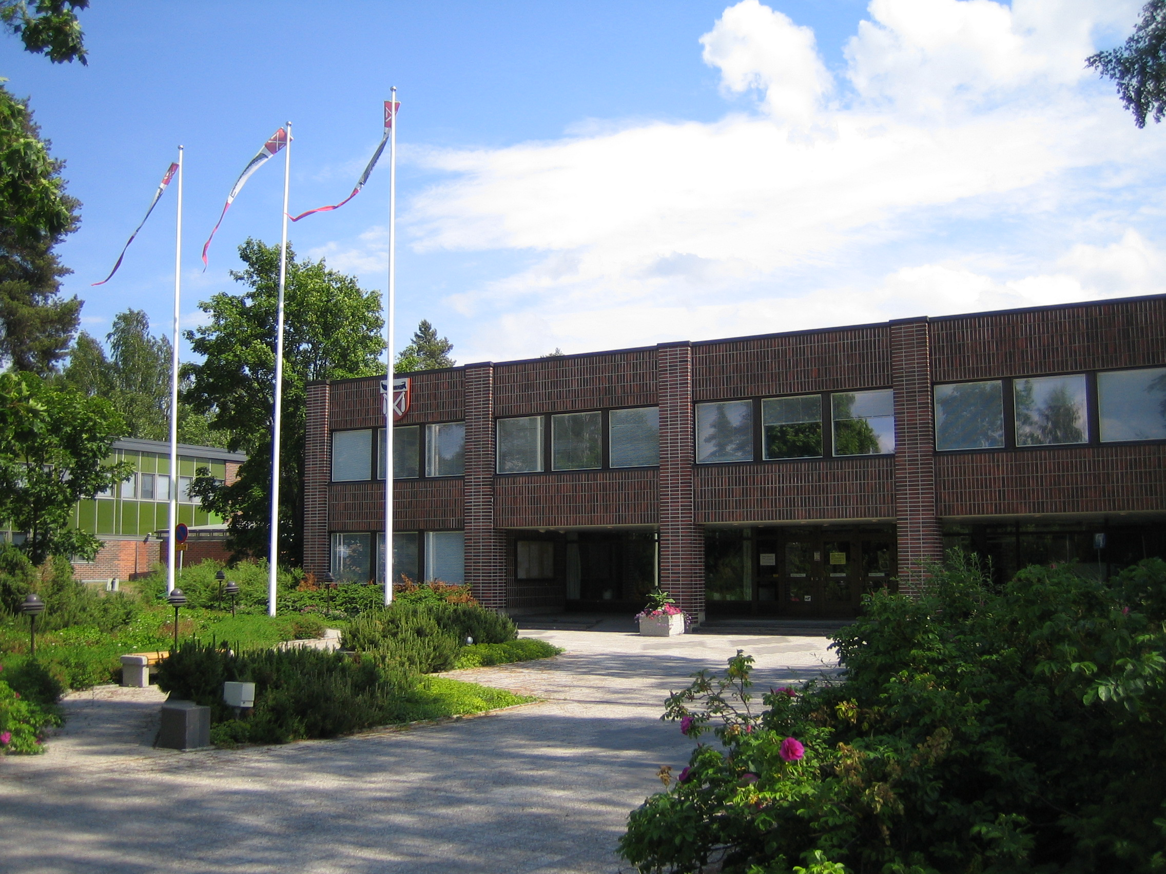 Keuruu town hall in Keuruu, Finland